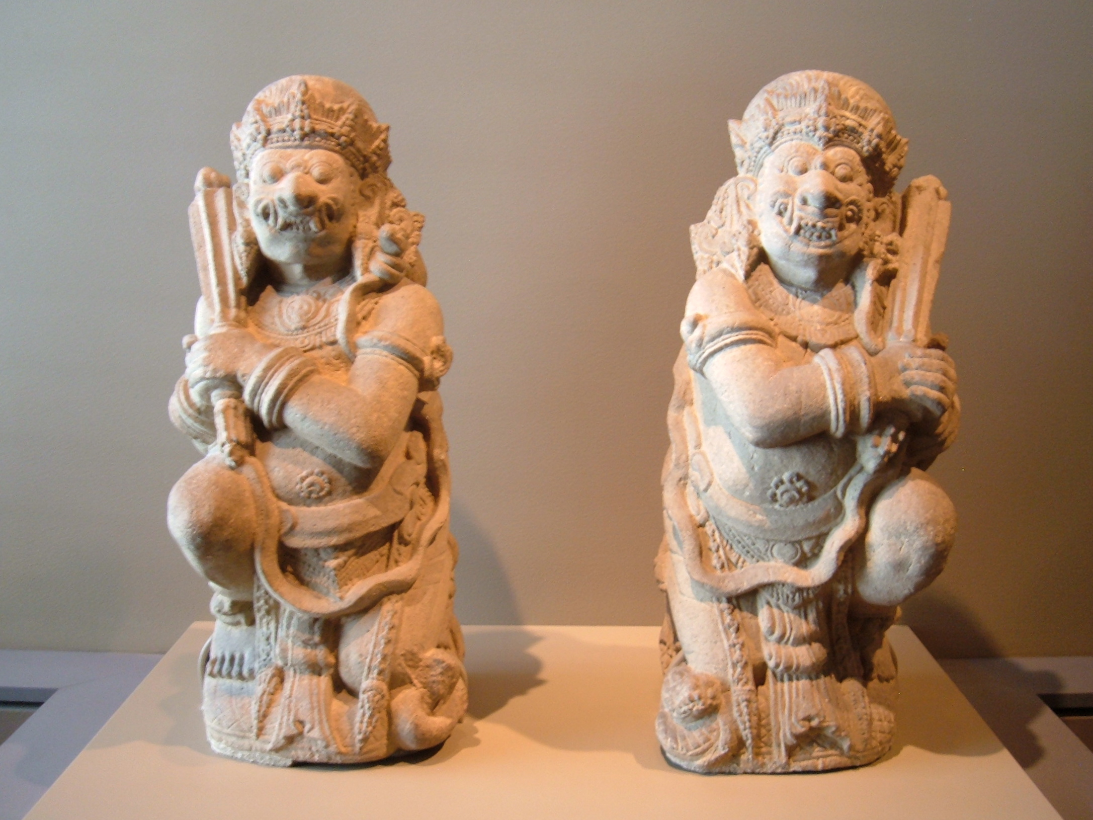 Pair of andesite door guardians from eastern Java, Indonesia, dated approximately 1300-1400 that would have been at an entrance to a Hindu temple in the kingdom of Majapahit. On display at the Asian Art Museum in San Francisco, California. Object ID: 1997.6.1 and 1997.6.2